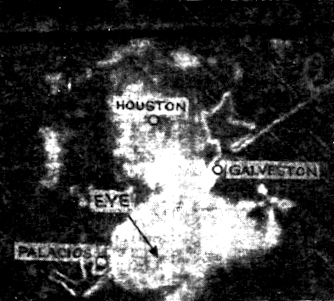 Radar image of Tropical Storm Abby as it approached landfall in Central Texas on August 7, 1964.